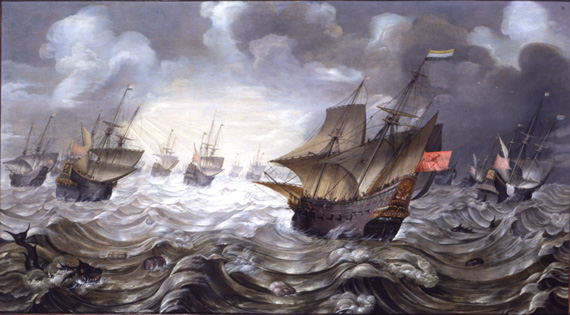 Ship "The Amsterdam" painted by Hans Savery the Elder